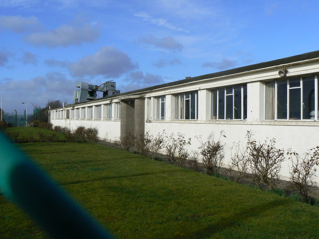 Secret base Abandoned since the end of the Cold War, this listening post at Hawklaw near Cupar was just one of many in the UK associated with GCHQ in Cheltenham. Stations such as this constituted the ground-based portion of the United States Signals Intelligence (SIGINT) System or "USSS." They were designed to intercept Morse Code, telephone, telex, radar, telemetry, and other signals emanating from behind the Iron Curtain. Currently, the US National Security Agency relies more on sophisticated SIGINT satellites with code names like Vortex, Magnum, Jumpseat, and Trumpet to gather and analyse the world's satellite, microwave, mobile phone, and high-frequency communications and signals although many ground stations remain in operation in the UK and elsewhere.